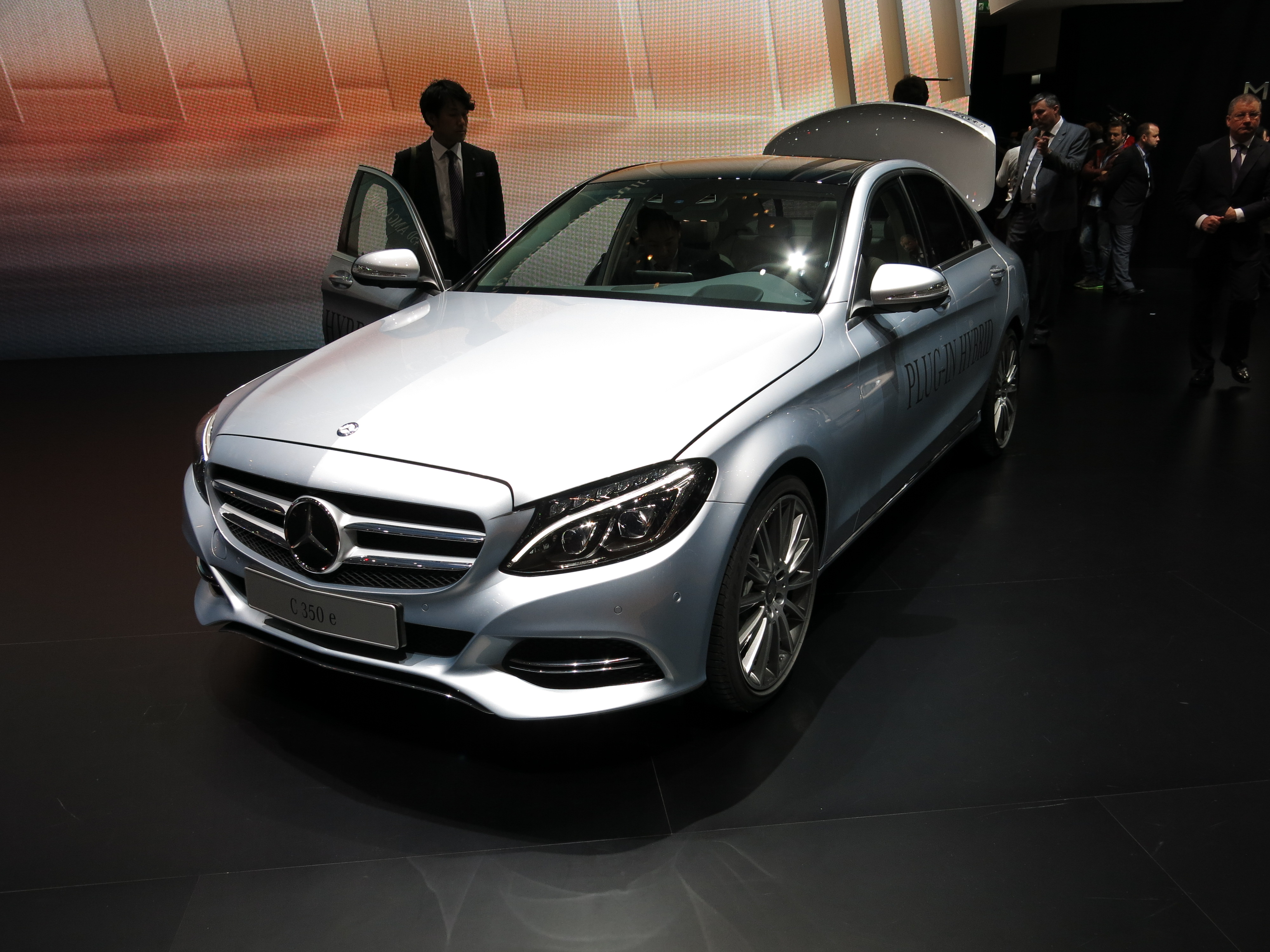 Geneva Motor Show 2015 (photo taken on the first press day)